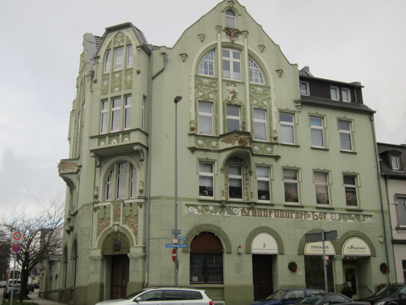 Brandenburger Hof in Sterkrade built ca. 1920